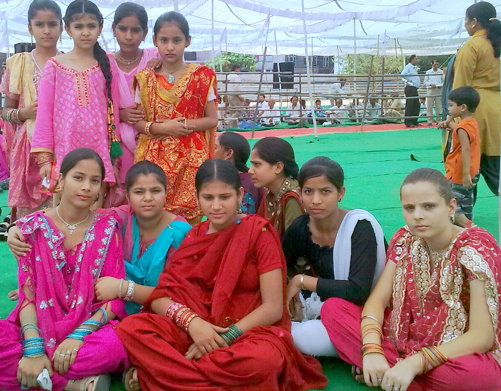 The photo was taken in Jummu, India during a function of Megh community. This photo is to be used for Meghwal article.